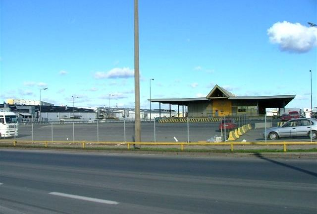 Modern Agro-Market in Poznan - Franowo District.